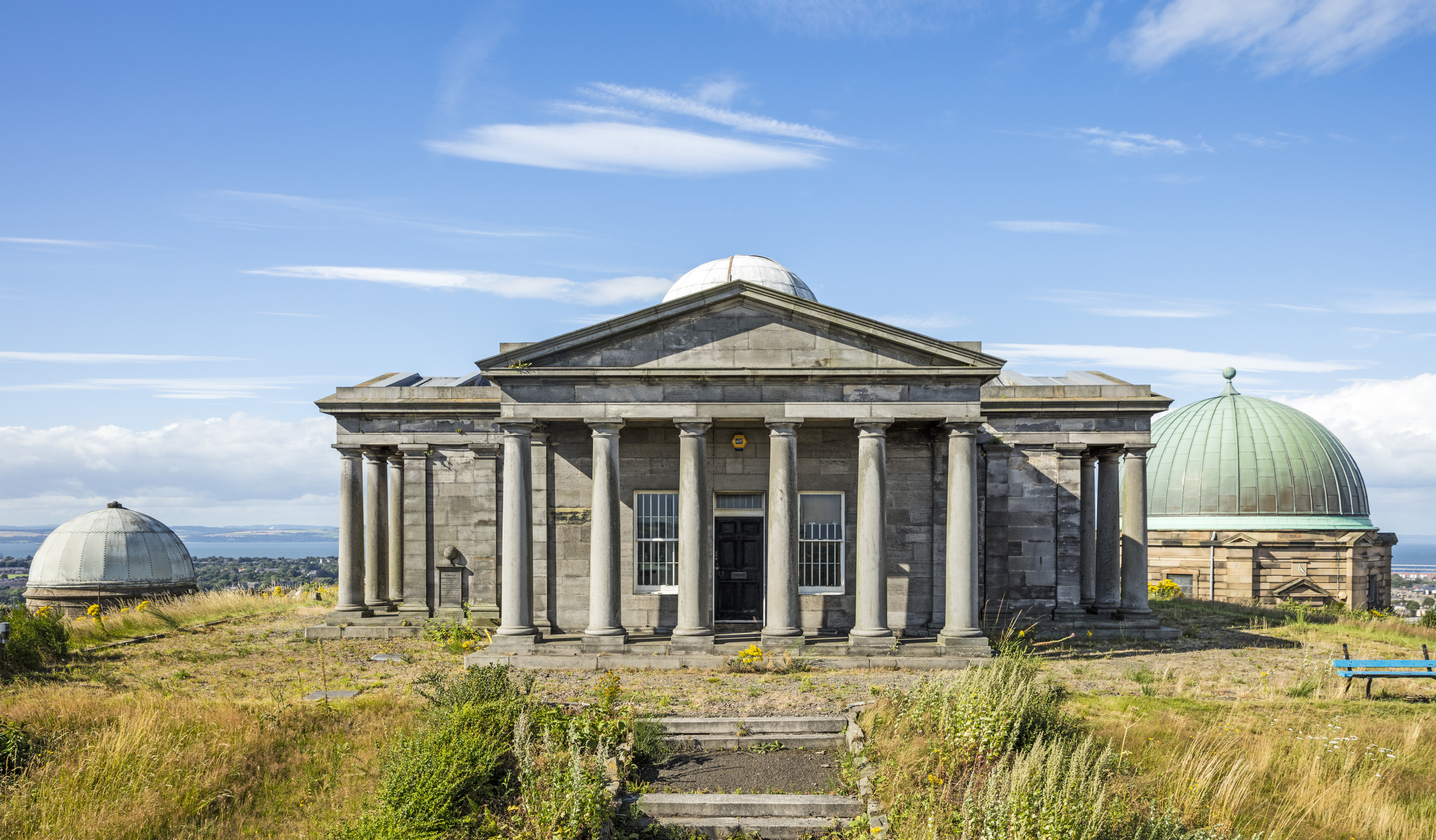 Edinburgh, Calton Hill, City Observatory Wikidata has entry Q17570594 with data related to this item.